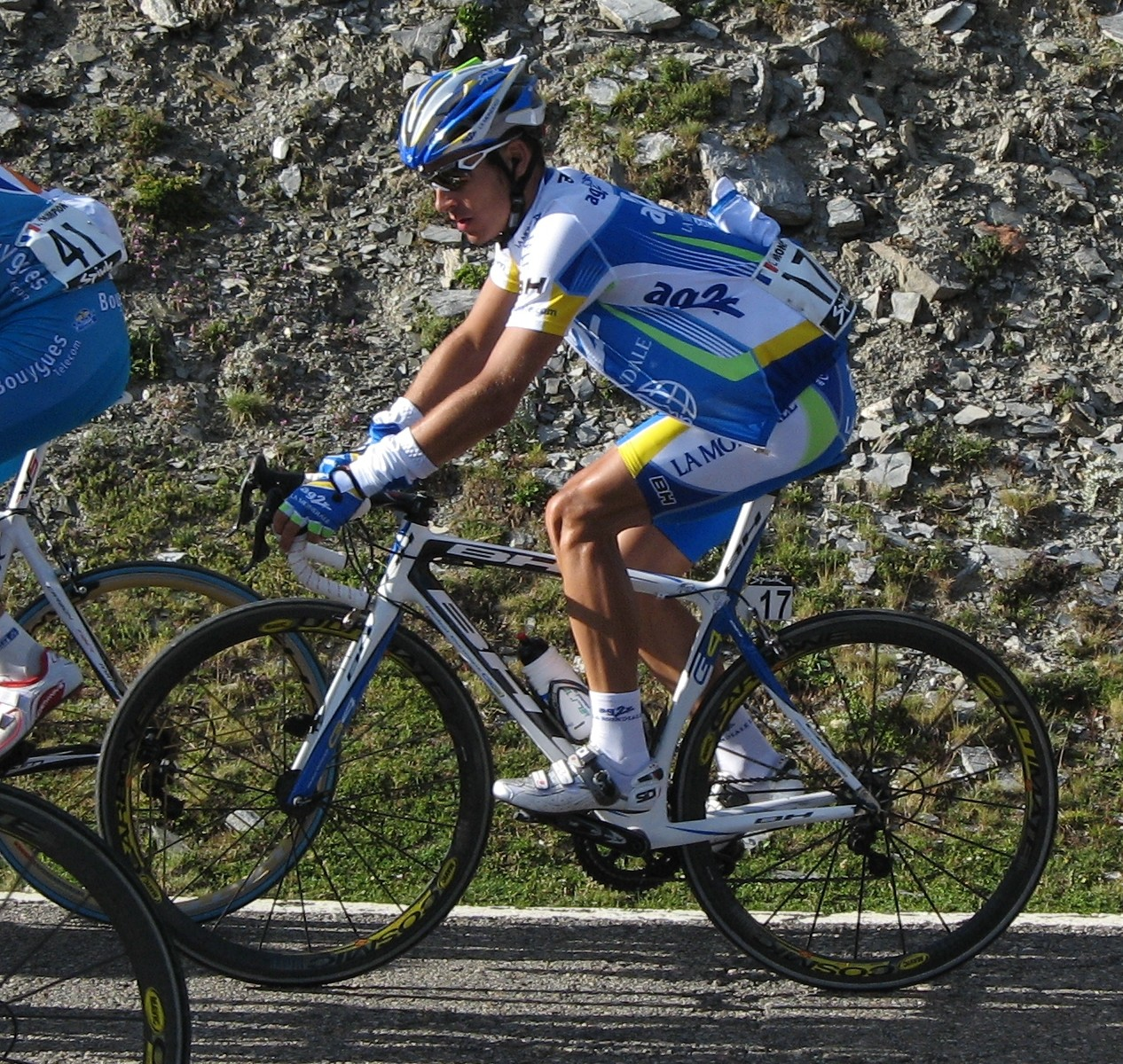 Lloyd Mondory, 2008 Vuelta a España, 8th stage, Port de la Bonaigua, Spain.